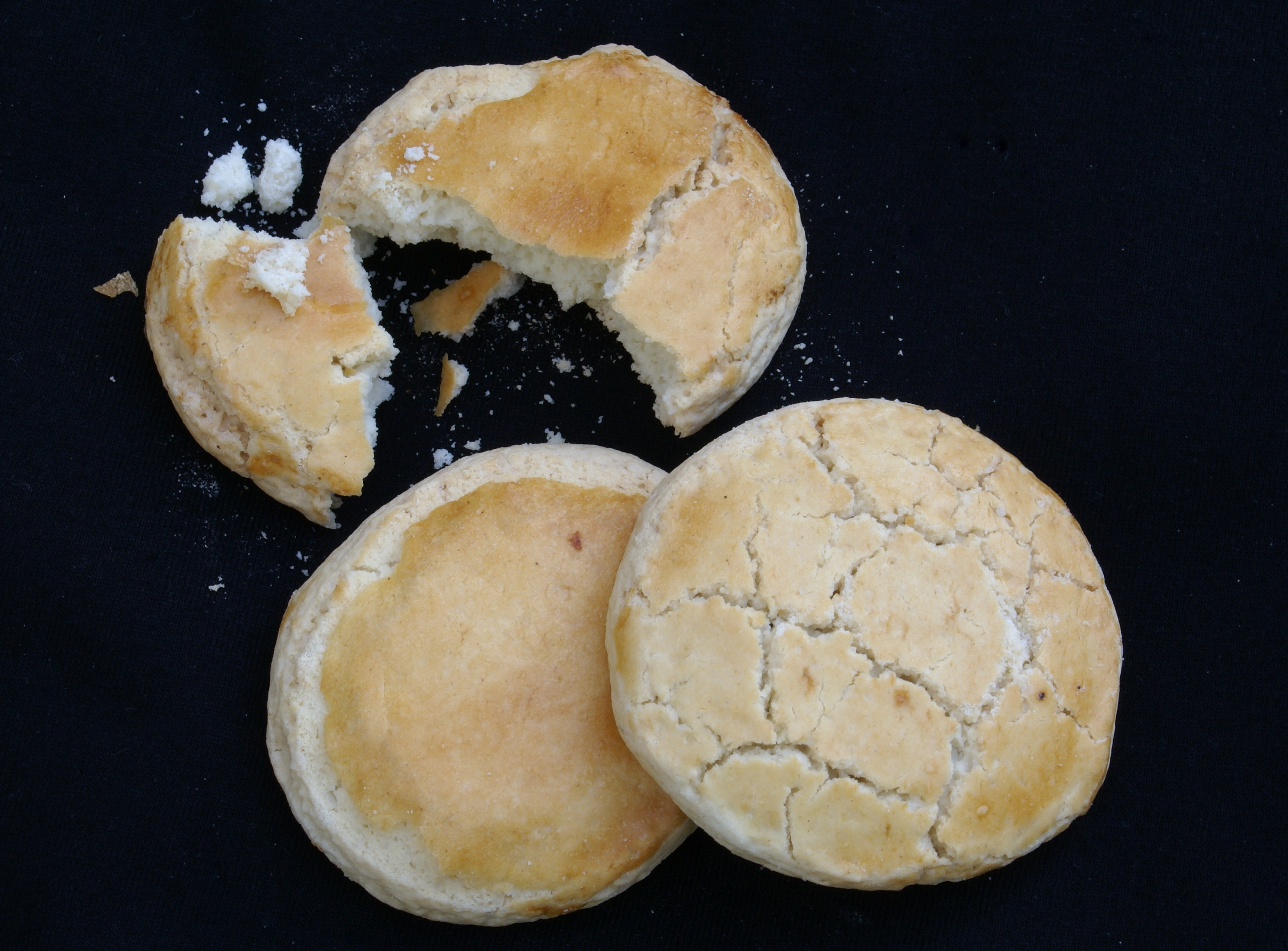 Bonbons la rouroute, traditionnal small reunionese biscuits made with starch from arrow-root (Maranta arundinacea) rhizomes